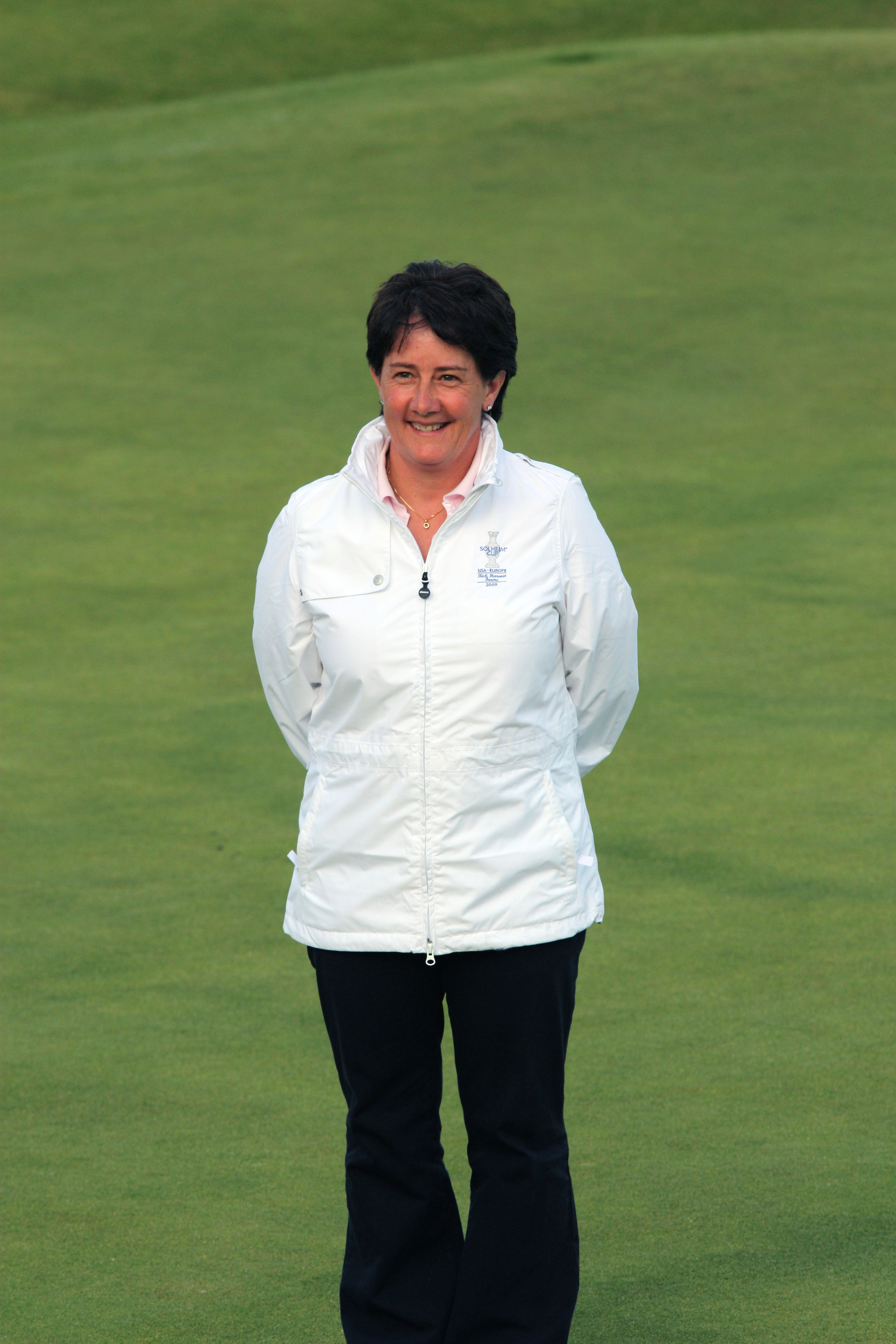 LYTHAM ST ANNES, UNITED KINGDOM - AUGUST 02: Alison Nicholas of England, captain of the European Solheim Cup Team, posing for a photograph after announcement of Solheim Cup teams, which followed final round of the 2009 Ricoh Women's British Open held at Royal Lytham & St Annes on August 2, 2009 in Lytham St Annes, England. (Photo by Wojciech Migda)